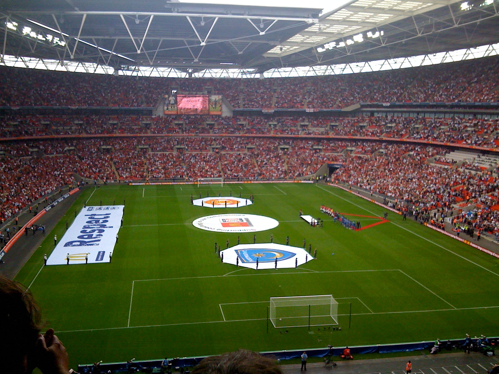 Tokyngton, Wembley, England, United Kingdom